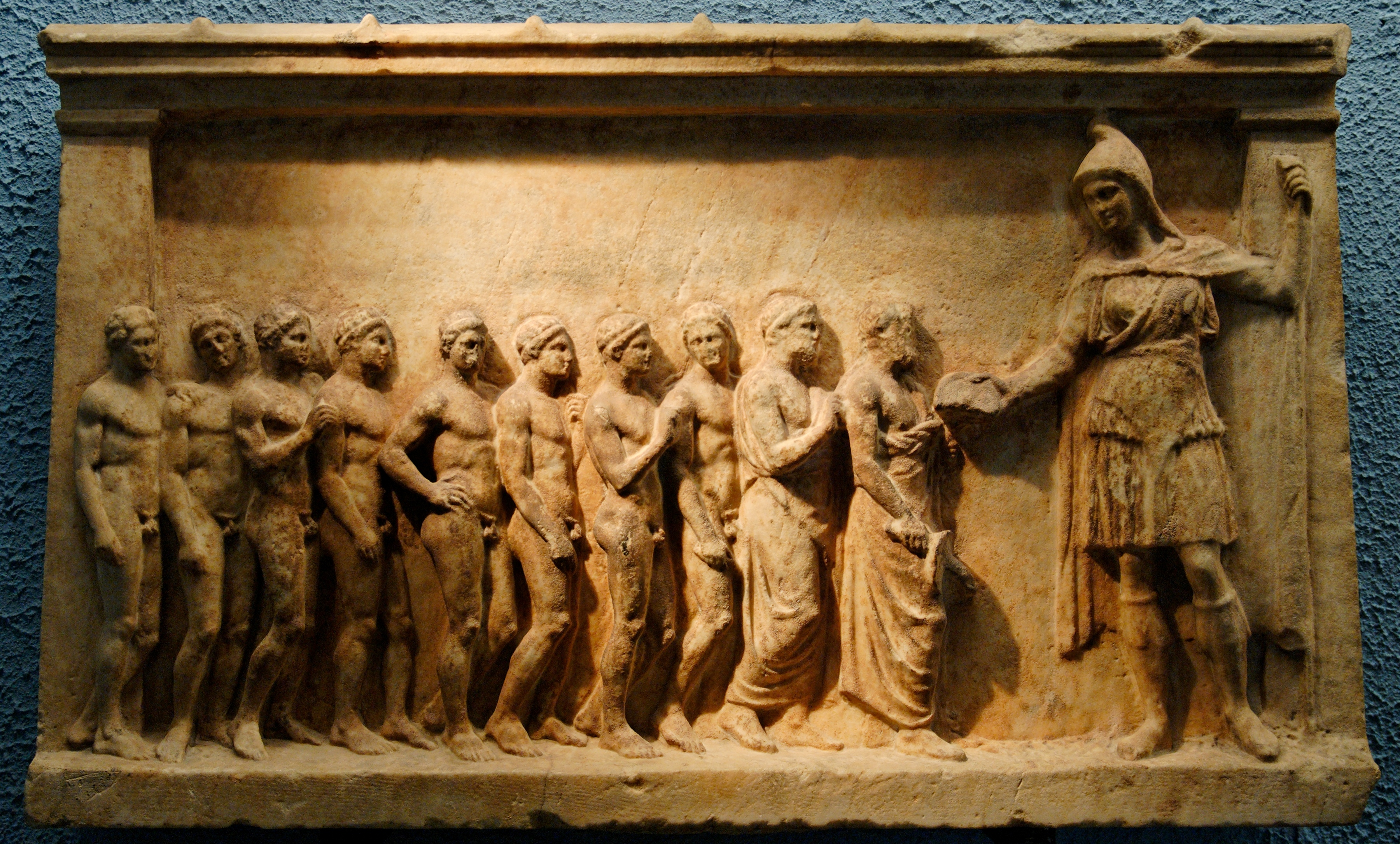 Artemis Bendis (on the right, wearing a Phrygian cap, a short tunic, high boots and an animal skin) and her followers, maybe athletes taking part in the torch relay race in honour of the goddess. Marble votive relief, made in Athens, ca. 400-375 BC. Said to be from Piraeus, more probably from the area of a sanctuary of Bendis on the Mounichia Hill.